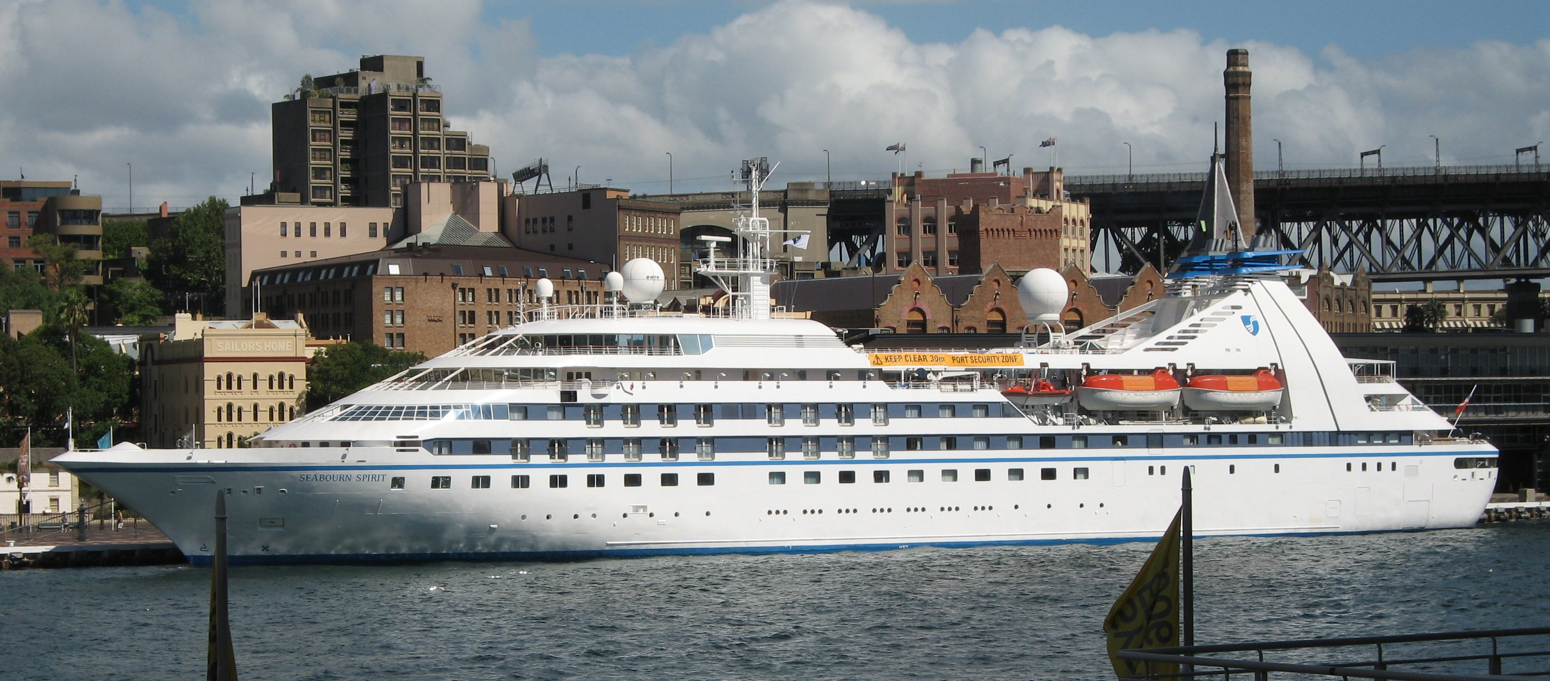 The Seabourn Spirit, Sydney Cove, Sydney, Australia.